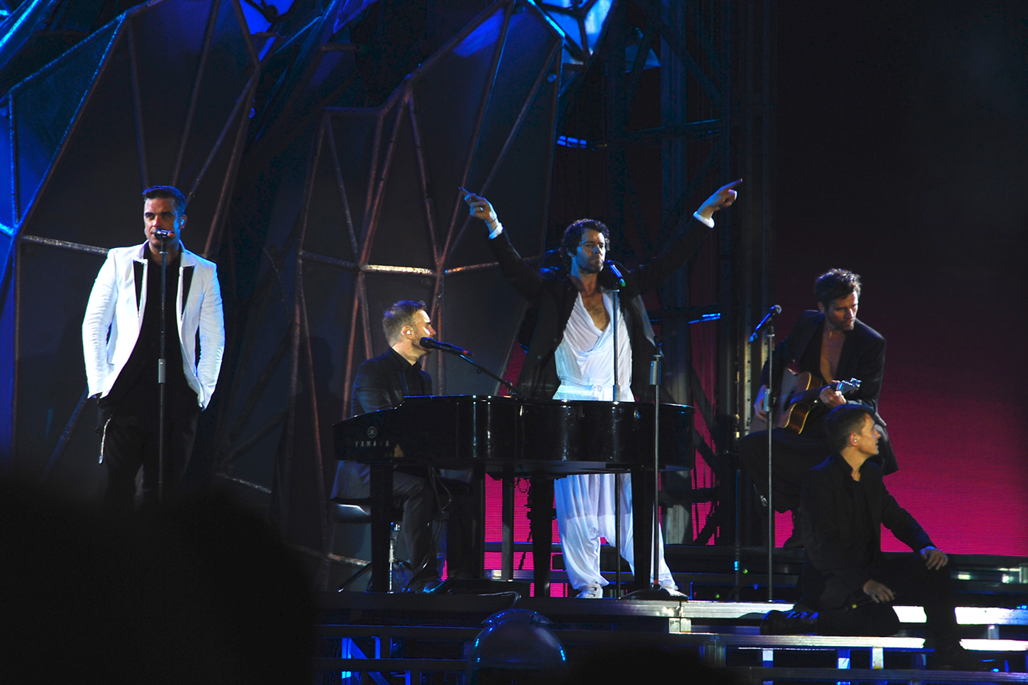 Take That & The Pet Shop Boys, Manchester 12 June 2011